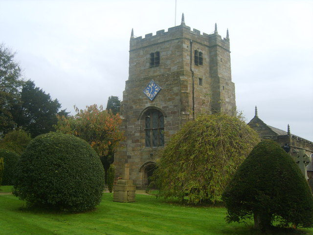 St. Michael's Church, near to St Michael's on Wyre, Lancashire, Great Britain. At St. Michael's on Wyre. A church was said to have been first built on this site about the year 640 AD of that nothing remains. There was a church here in 1086 recorded in the Domesday Book.